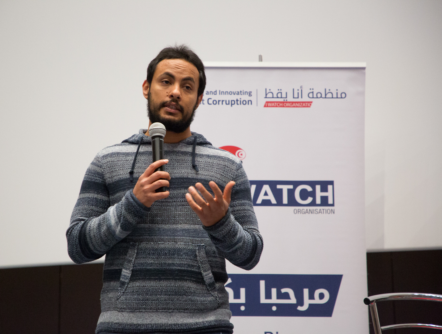 Achraf Aouadi giving a speech in the opening of the Integrity Mall that was organized by I Watch in the city of culture.